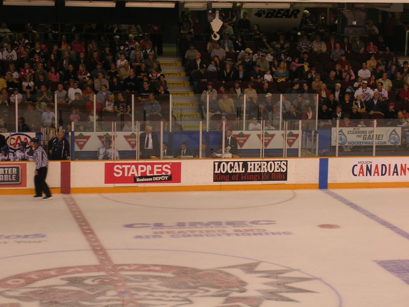 Ice hockey penalty box